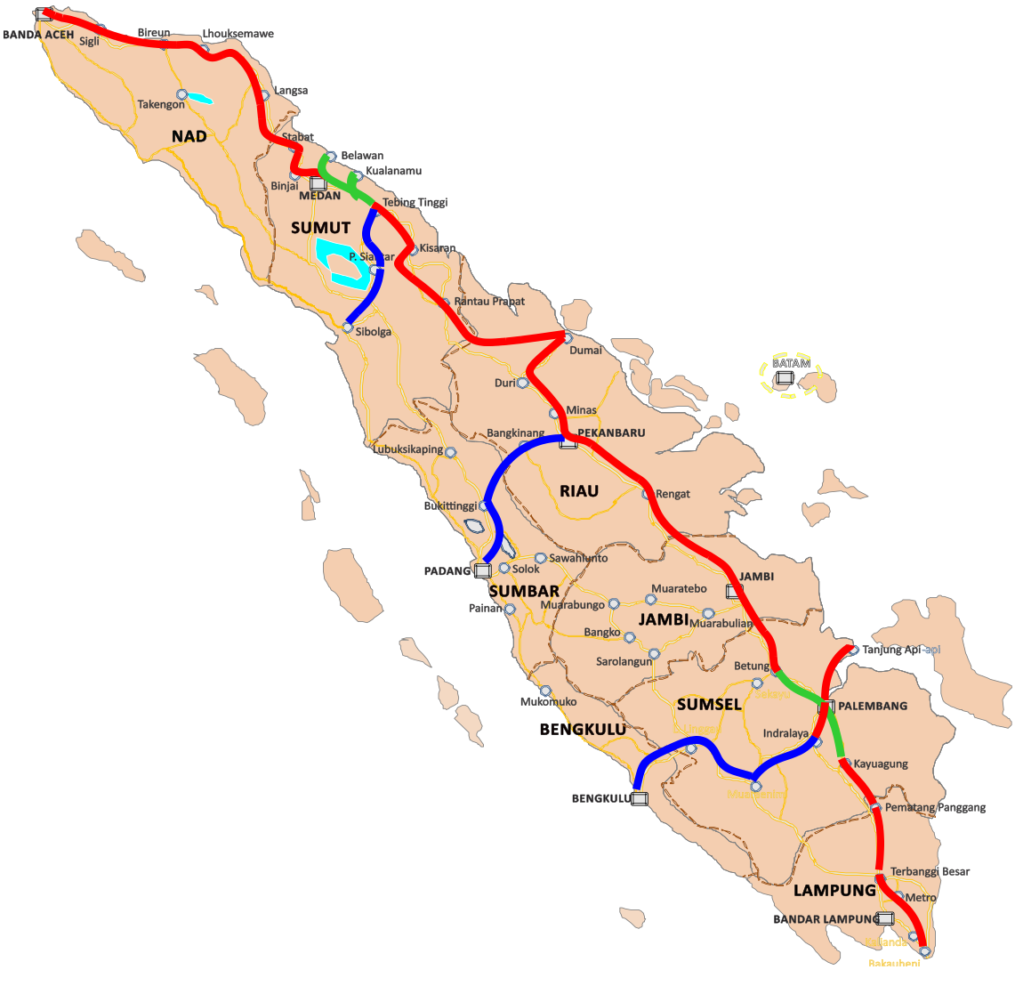 Map of the planned routes in the Trans-Sumatra Toll Road